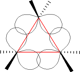 Coulson_Moffit_Model, cyclopropane bent bonds